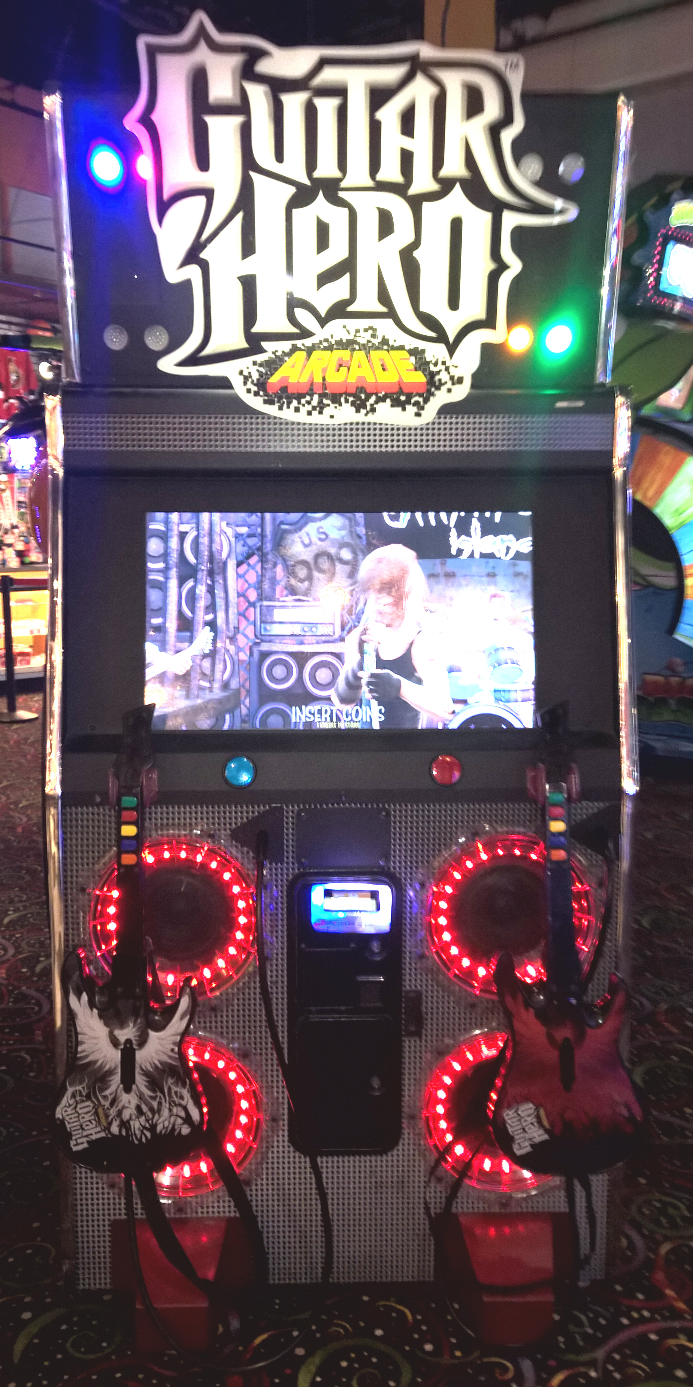 Guitar Hero Arcade game at Funhaven.